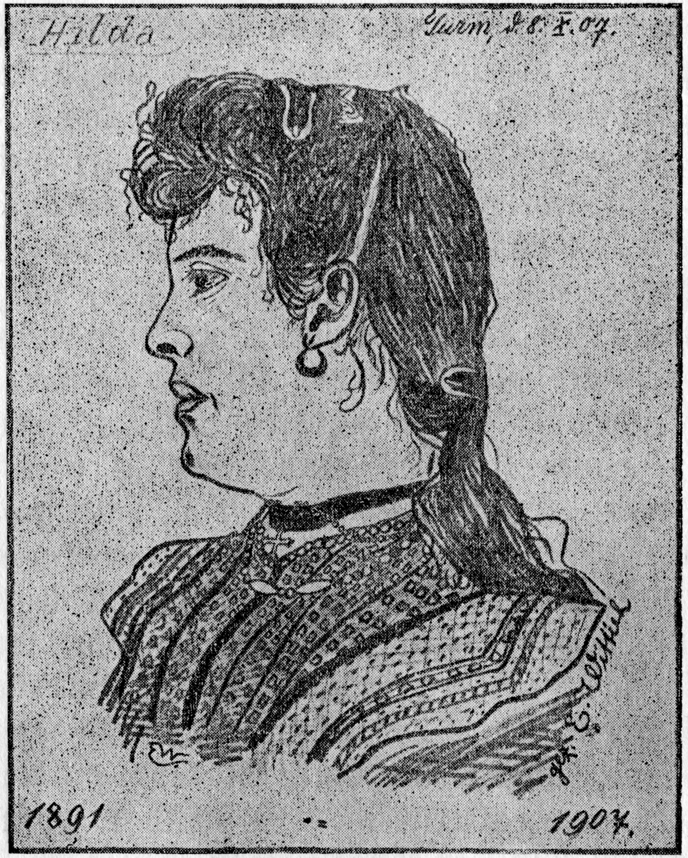 Portrait of Engelbert Wittichs daughter Hilda Denner, made by E. Wittich in 1907.